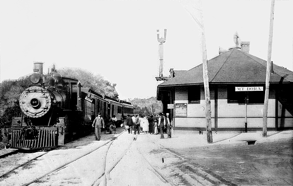 Railroad Station, Mount Dora, Florida; from a c. 1920 postcard. It is now the Chamber of Commerce office.